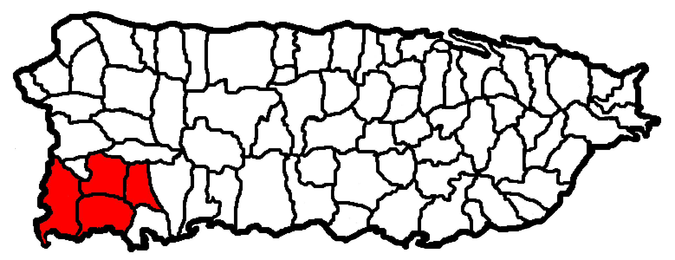 Map of Puerto Rico highlighting the San Germán-Cabo Rojo Metropolitan Statistical Area. Created with the GIMP. Adapted from Image:Map_of_the_78_municipalities_of_Puerto_Rico.png by Alessandro Cai (OliverZena).